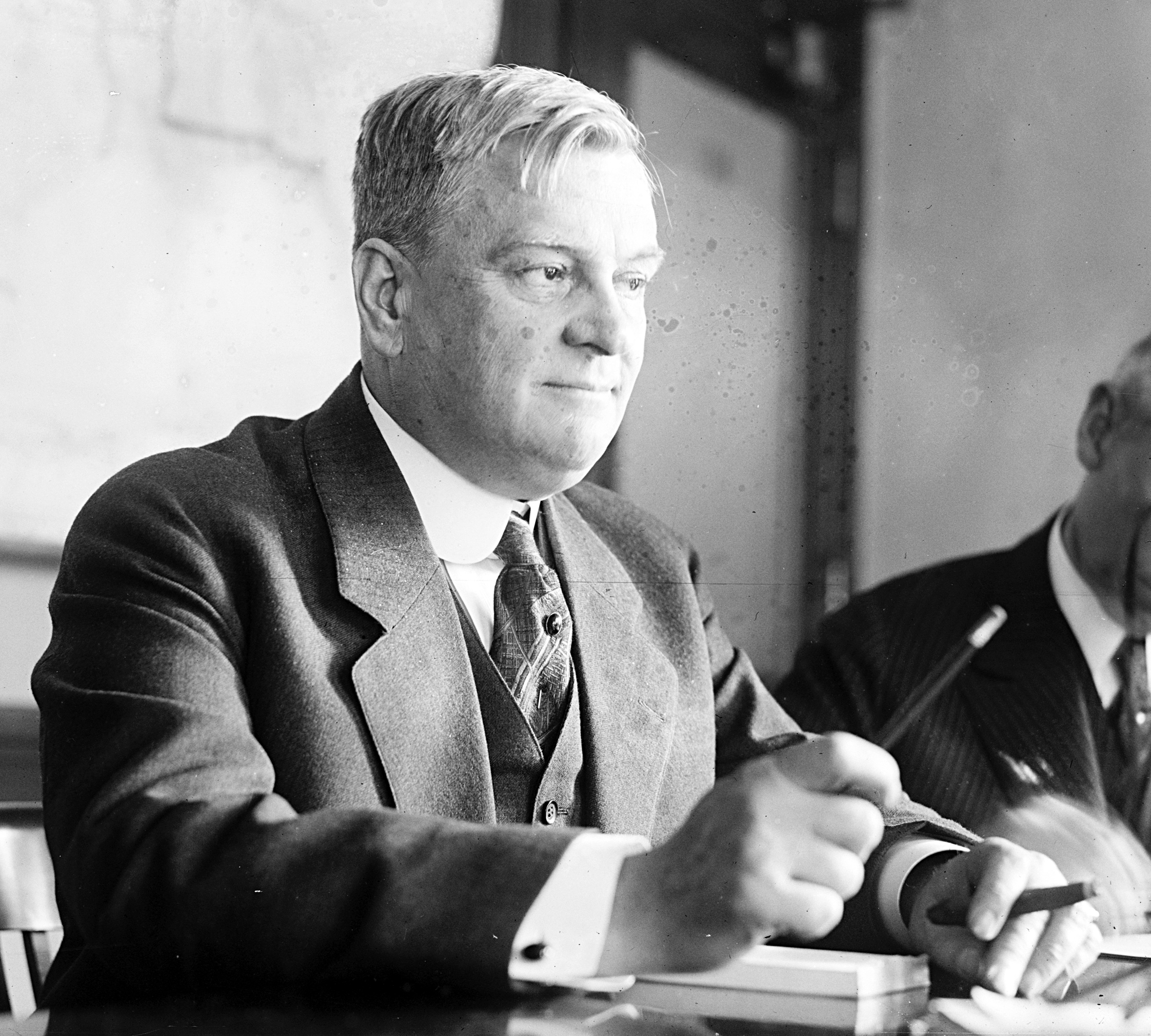 Charles Creighton Carlin, US Representative from Virginia